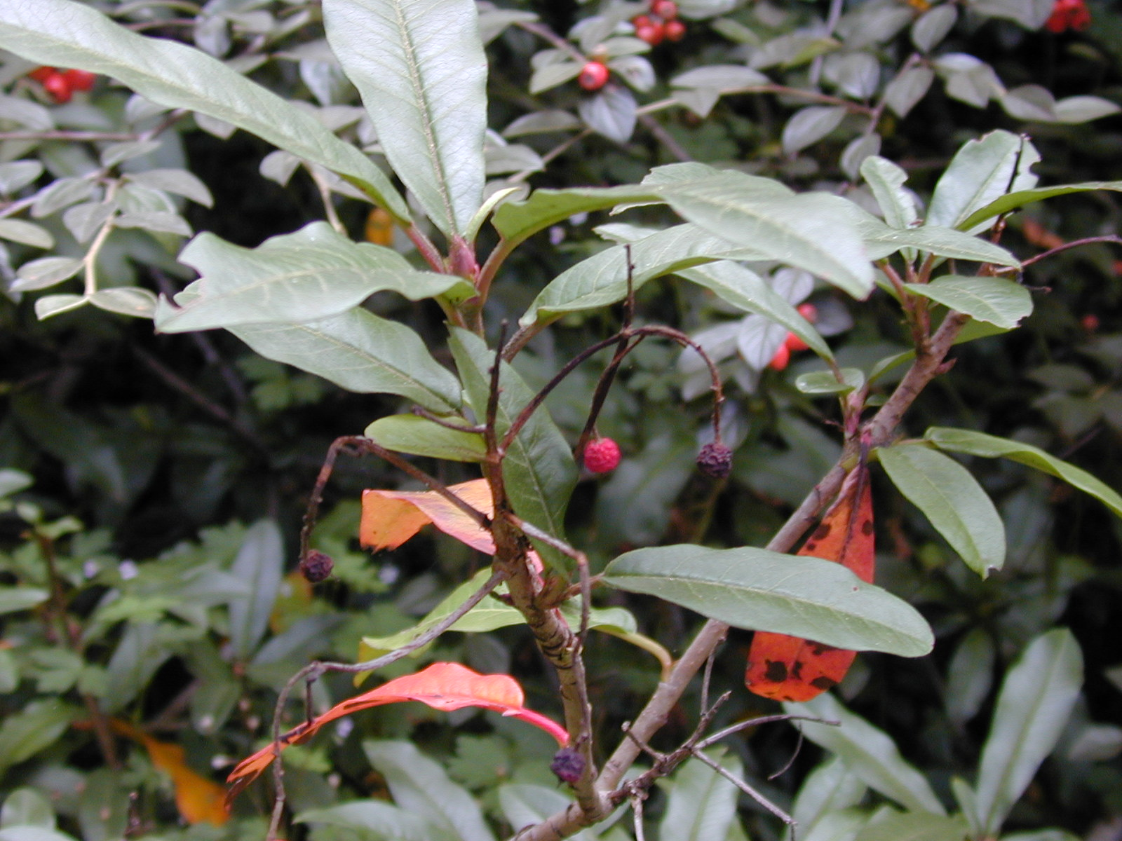 Photinia davidiana (leaves and fruit). Location: Maui, Polipoli